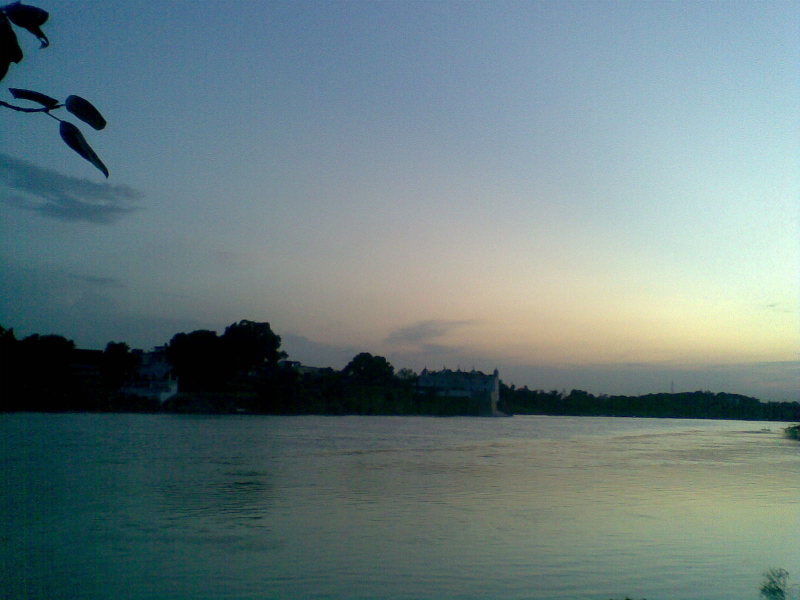 this picture is taken by me on the banks of river Gomati in Jaunpur.